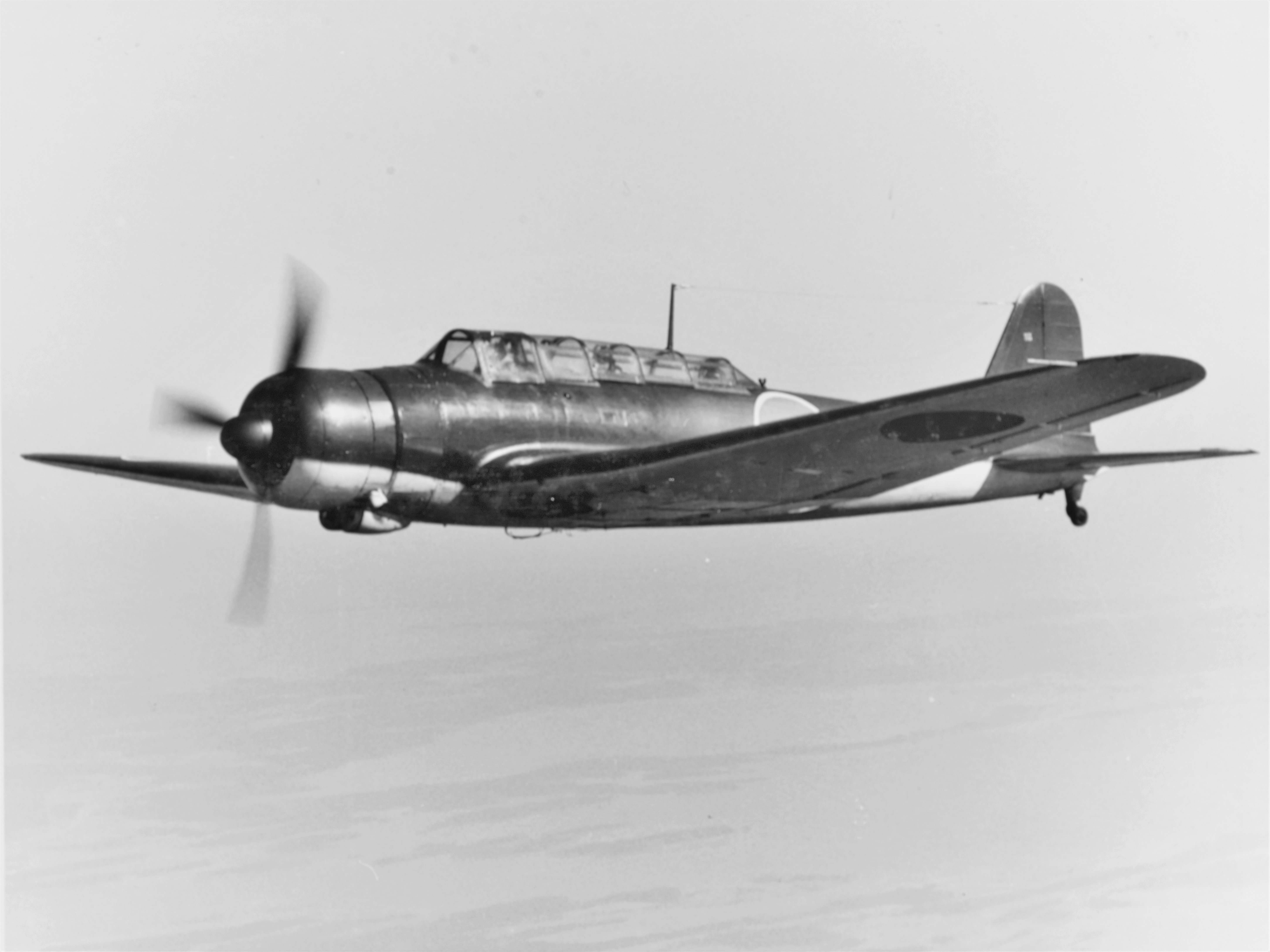 A captured Japanese Nakajima B5N2 torpedo bomber tested by the U.S. Navy Naval Air Test Center Patuxent River, Maryland (USA), in February 1943.